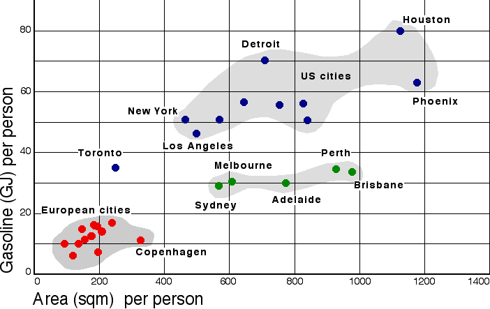 Newman and Kenworthy’s 1989 study is often referred to in demonstrating a relationship between overall urban density and transport energy use. Newman and Kenworthy’s statistical methods have been criticised by a number of authors. The essential problem is examining the relationship between ‘motor spirit use per person’ and ‘persons per hectare’. Because population is in the denominator in one term and the numerator in the other, a spurious correlation emerges. Reanalysis of the primary data comparing gasoline use per person to area per person shows a more complex relationship. The revised graph shows this.